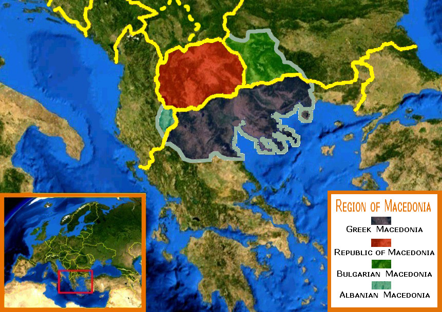 Region Macedonia in Macedonia and Greece, Greece in blue and Macedonia in red Self made. Sat maps taken from NASA World Wind.